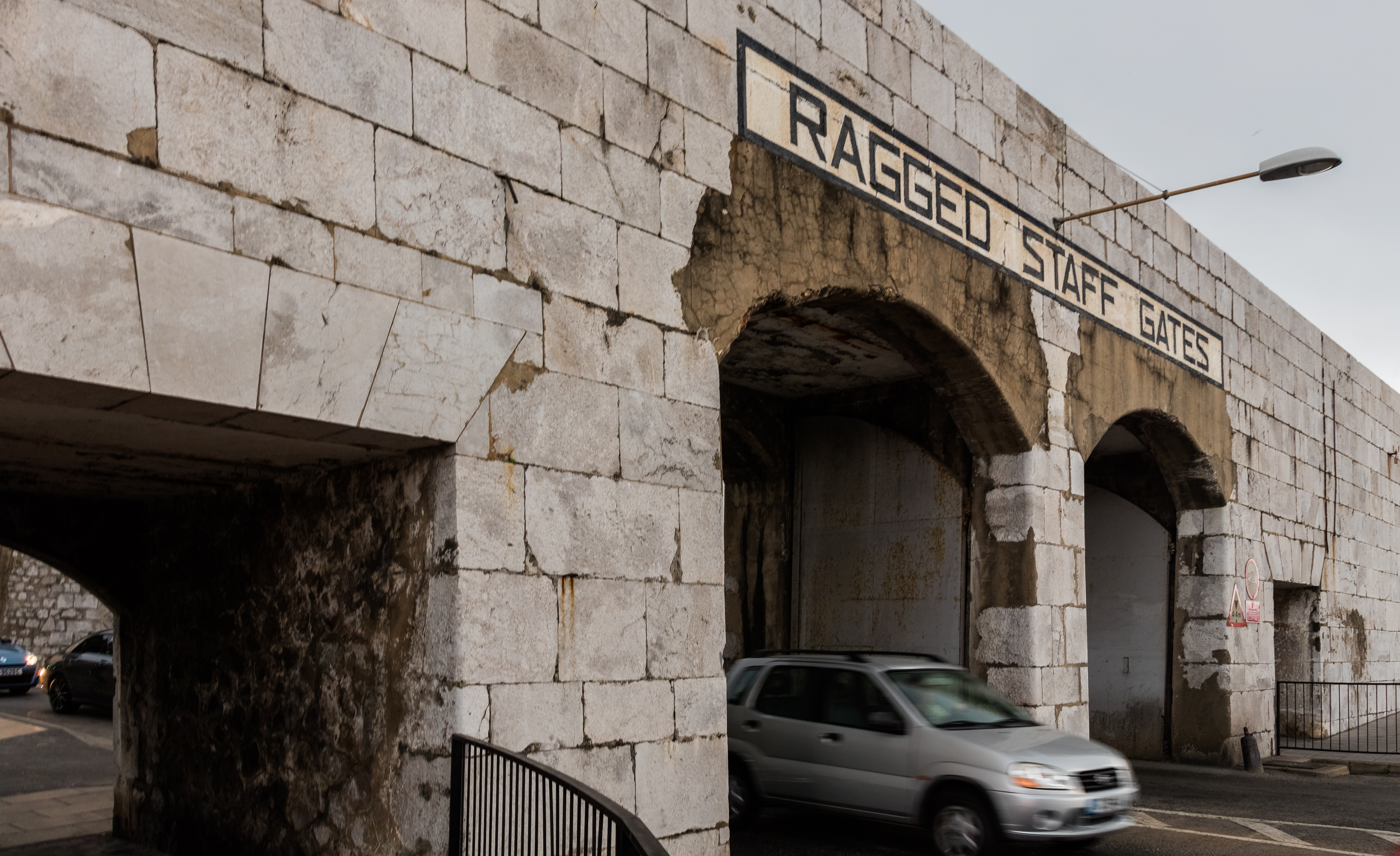 Ragged Staff Gates, Gibraltar